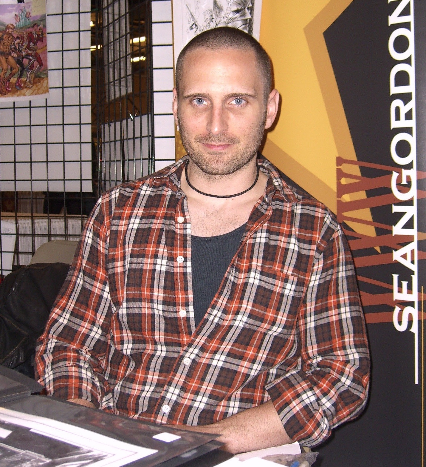 Comic book creator Sean Murphy, at the New York Comic Convention in Manhattan, October 10, 2010. Photo by Luigi Novi. This photo may be used, modified and published for any purpose, only if a easily visible credit to the photographer is placed near the photo in each instance in which it is used. (See licensing information below.) Publication of this photo without this proper attribution constitute copyright infringement. For more information on my photos, you can contact me here.